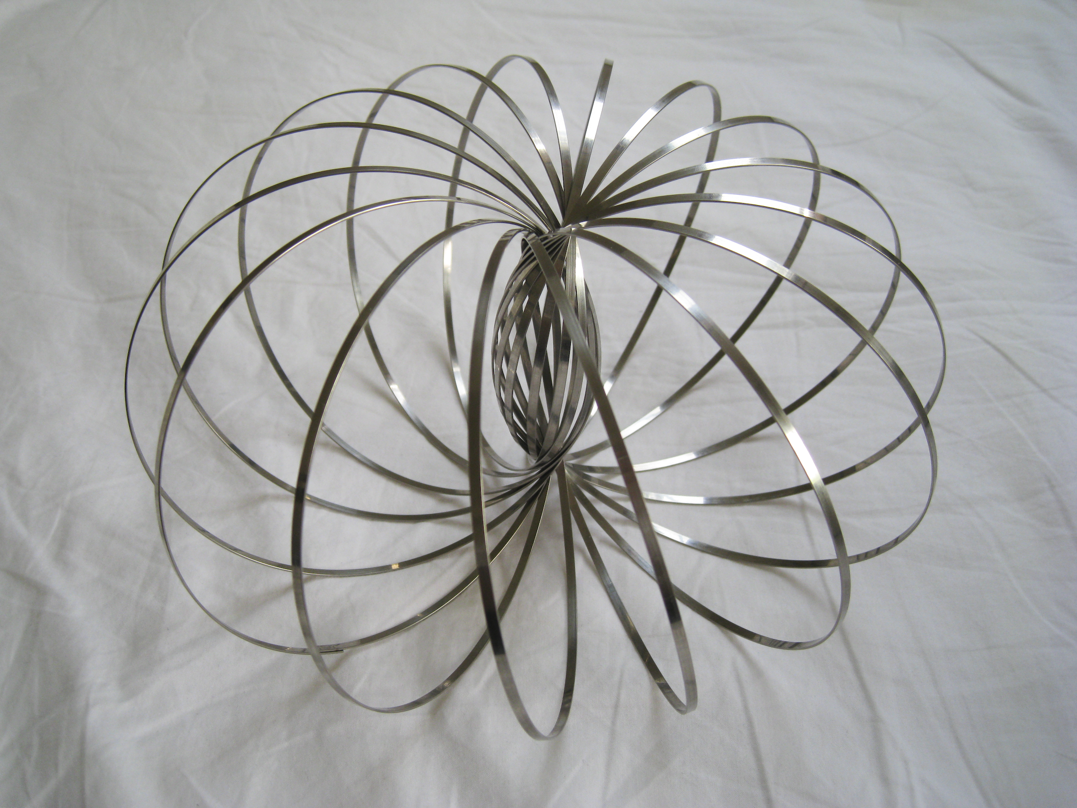 Torofluxus